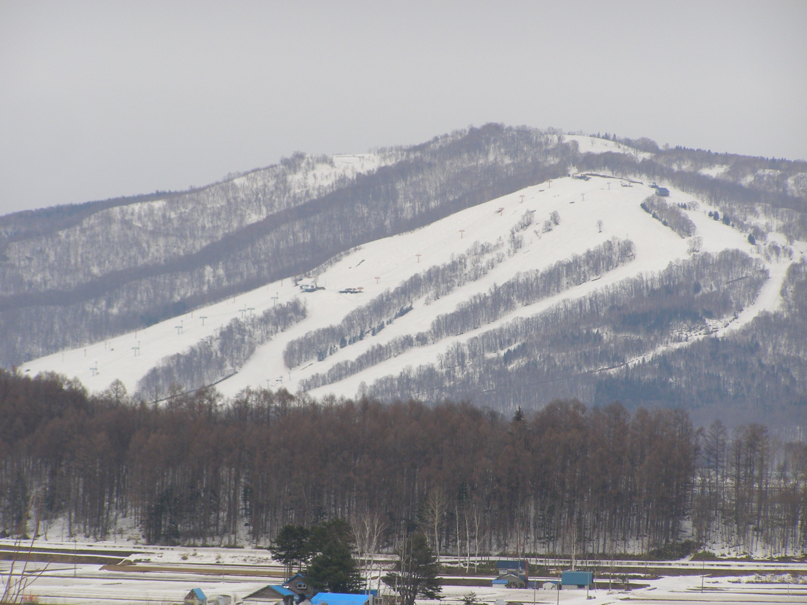 Pippu Ski aria in Hokkaido, Japan.